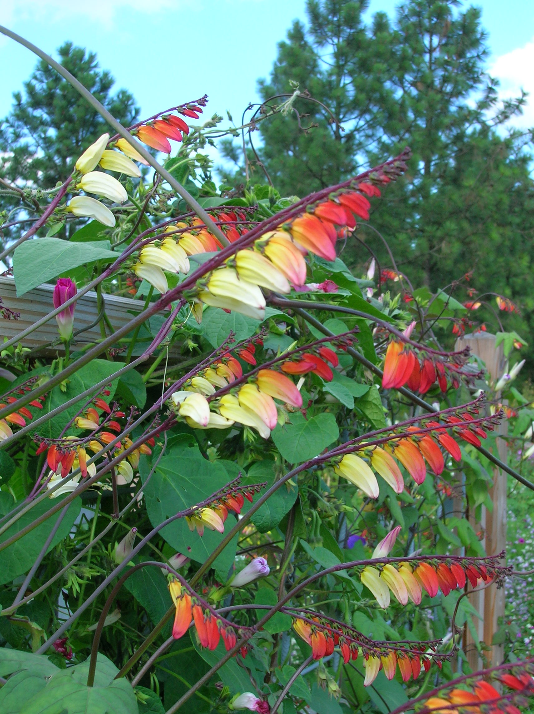 Quamoclit lobata at the ÖBG Bayreuth